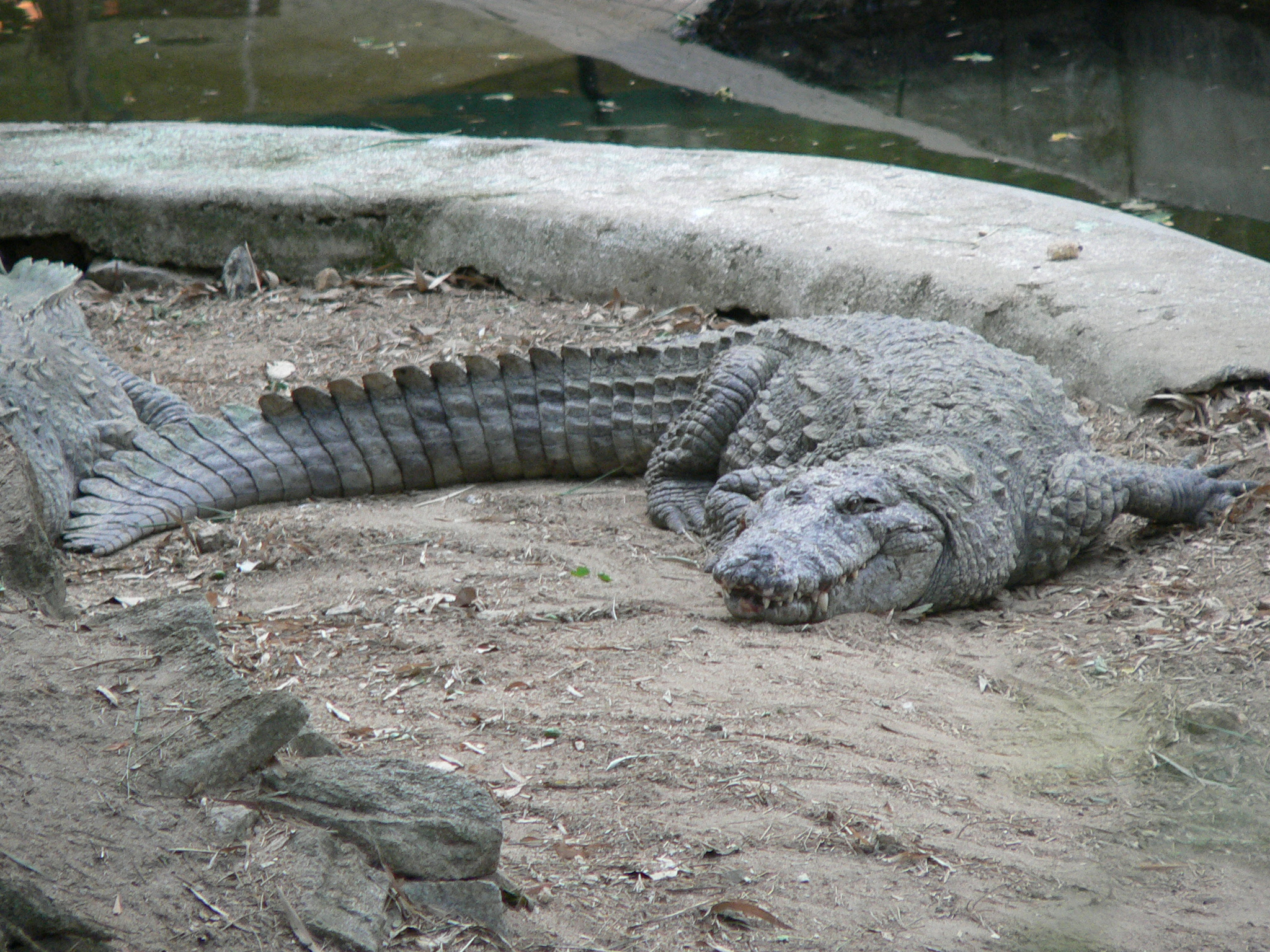 large marsh crocodile